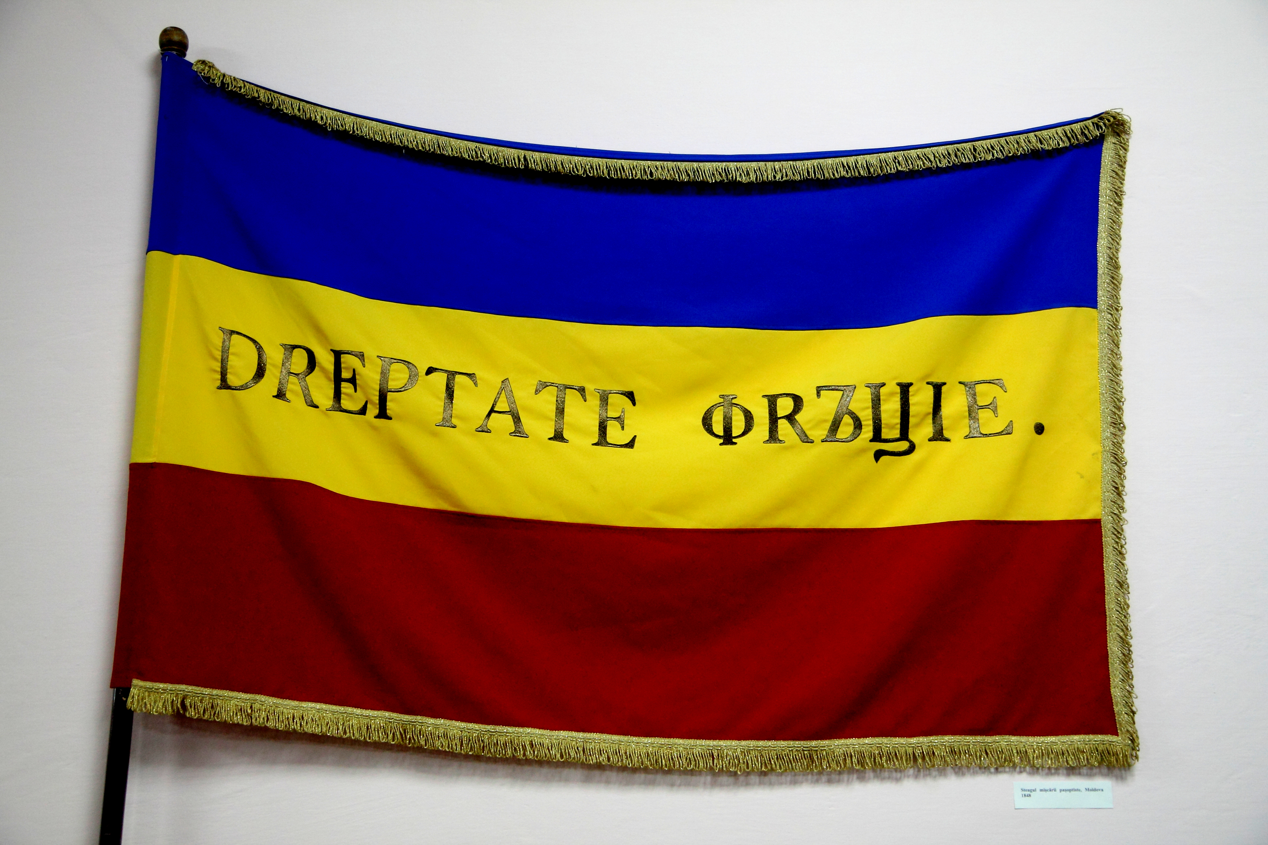 Expozitiile permanente Muzeul de Istorie din Chisinau